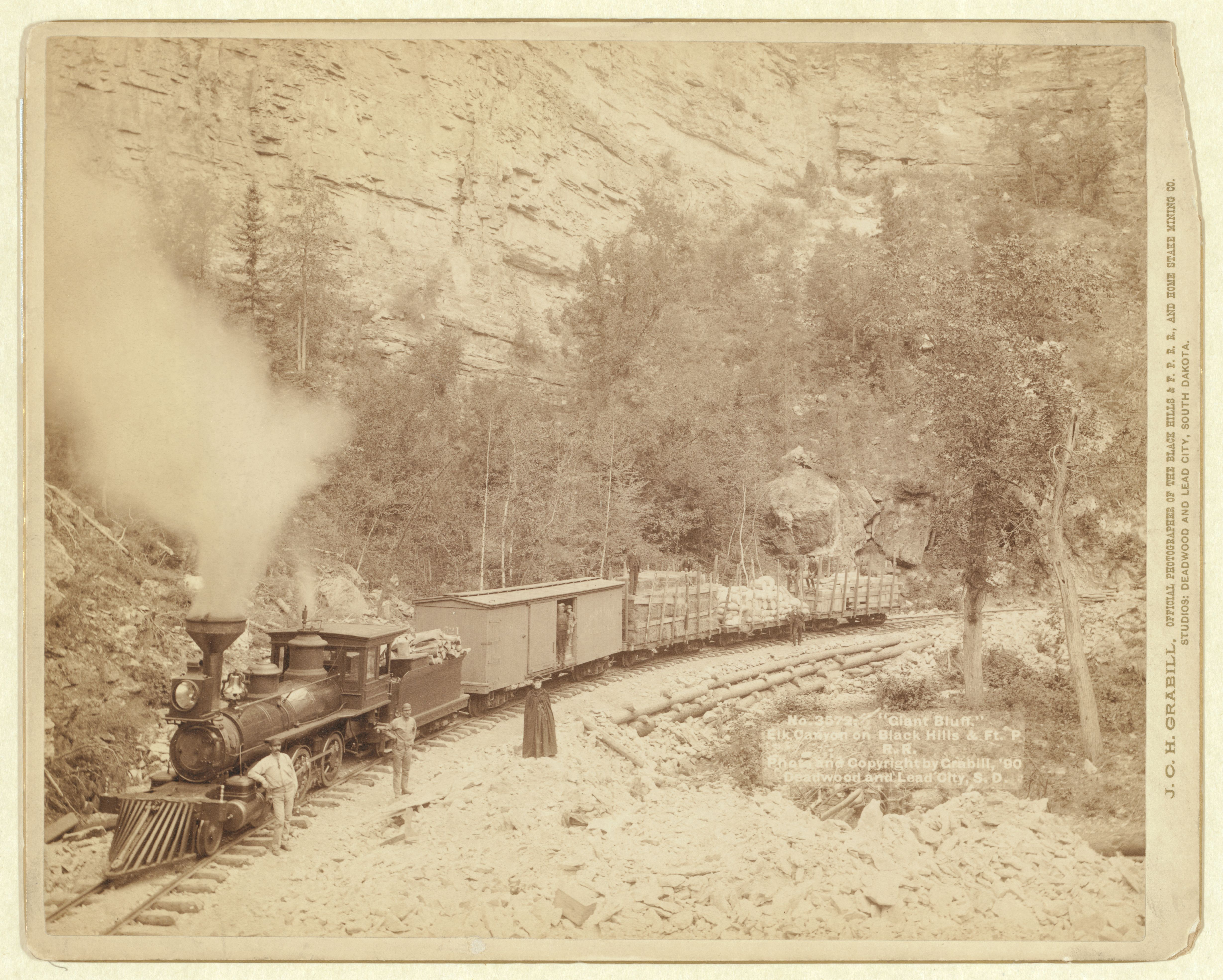 Original title "Giant Bluff." Elk Canyon on Black Hills and Ft. P. R.R. A wood-burning locomotive with four cars, on a track below a cliff; several people are posing in front of the train.